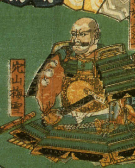 Anayama Nobukimi, FuuRinKaZan, foldout P. 197